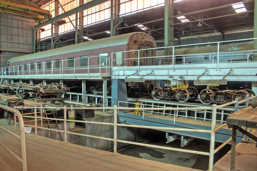 Inside the Diesel Shed showing the bogie exchange mechanism